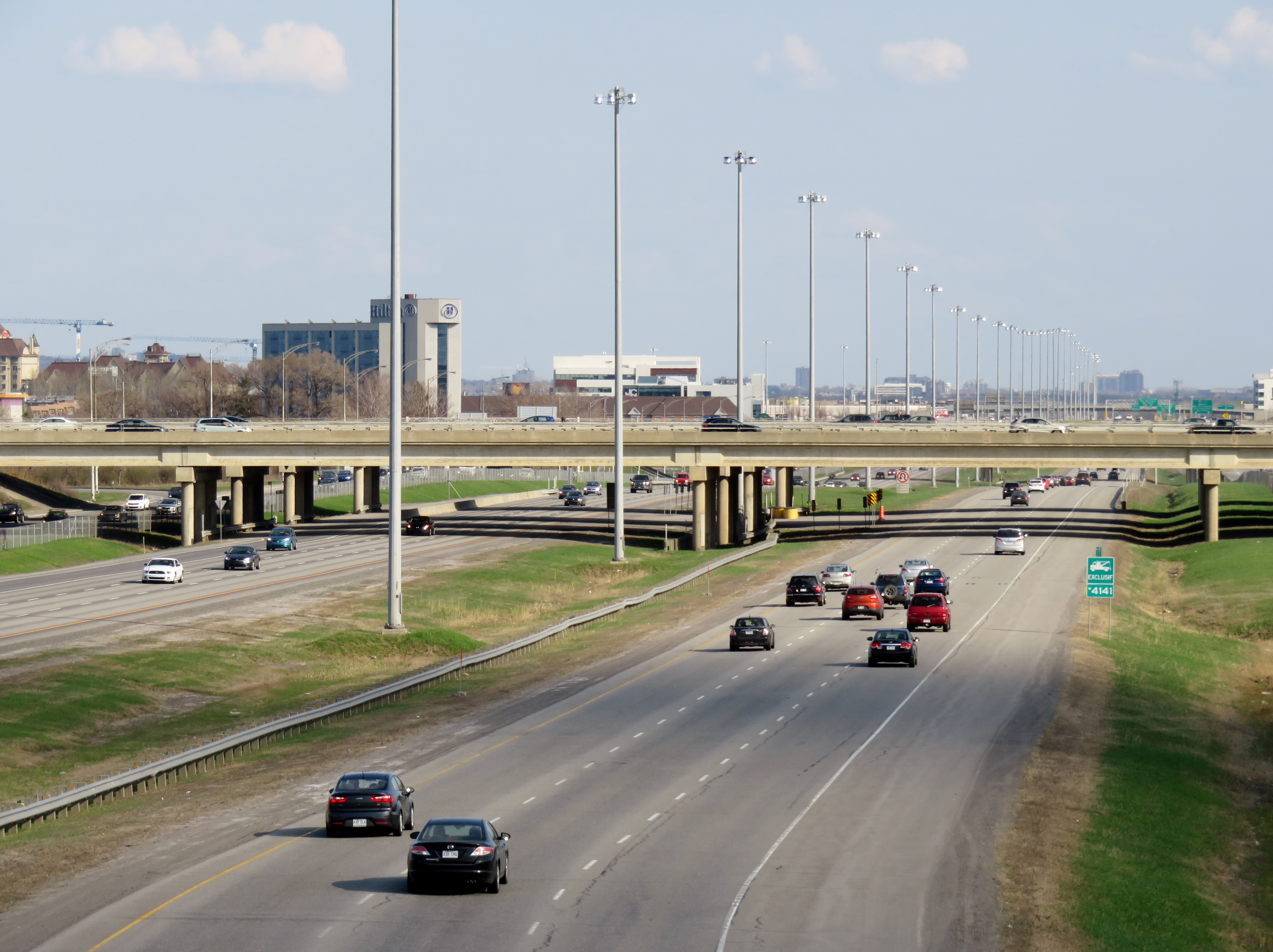 Interchange A-15 and A-440 seen from the viaduct of Saint-Elzéar Boulevard, Laval, Quebec.